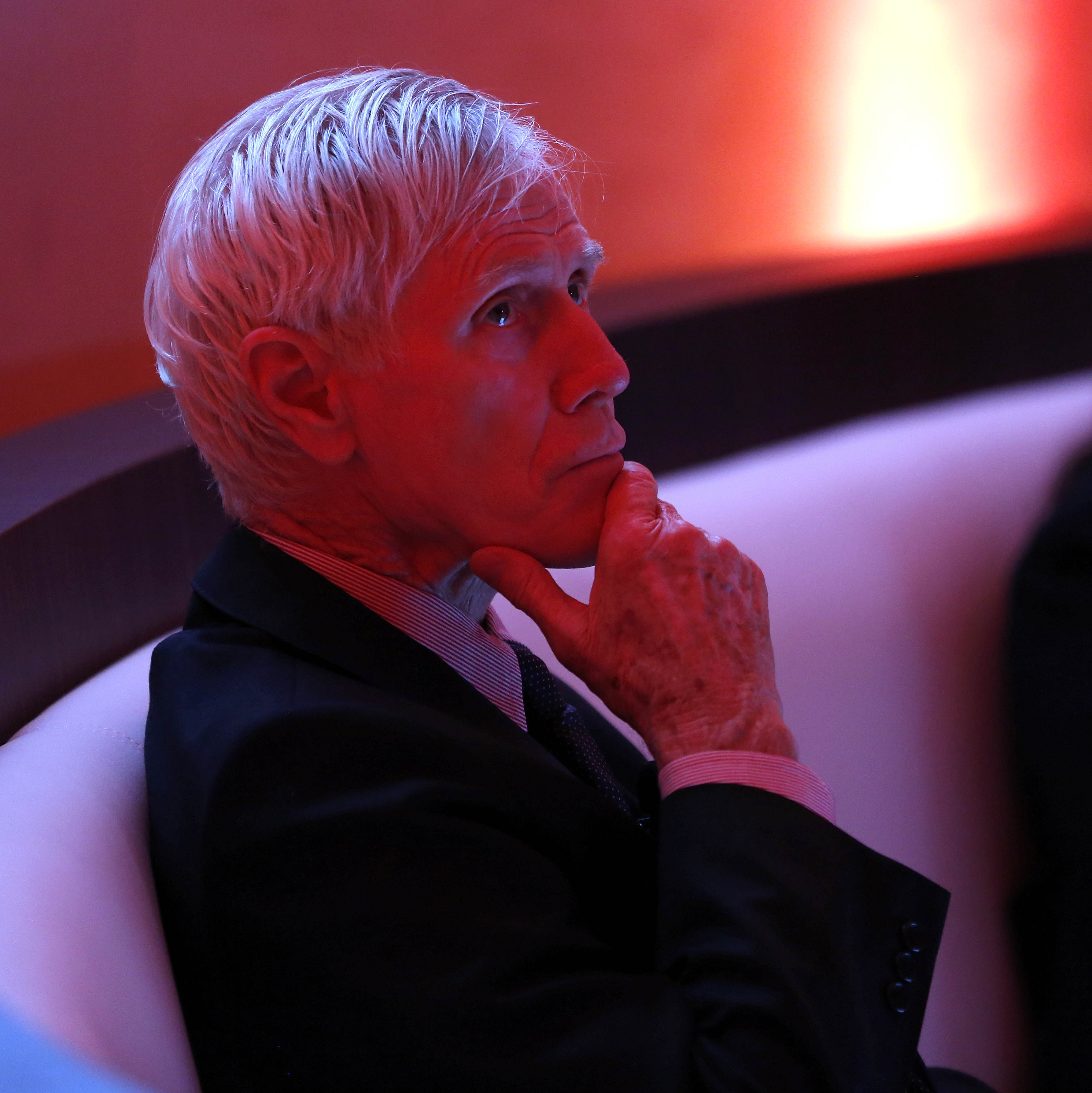 Orville H. Schell, Director, Center on US-China Relations, Asia Society, USA at the Annual Meeting of the New Champions in Tianjin, China 2012